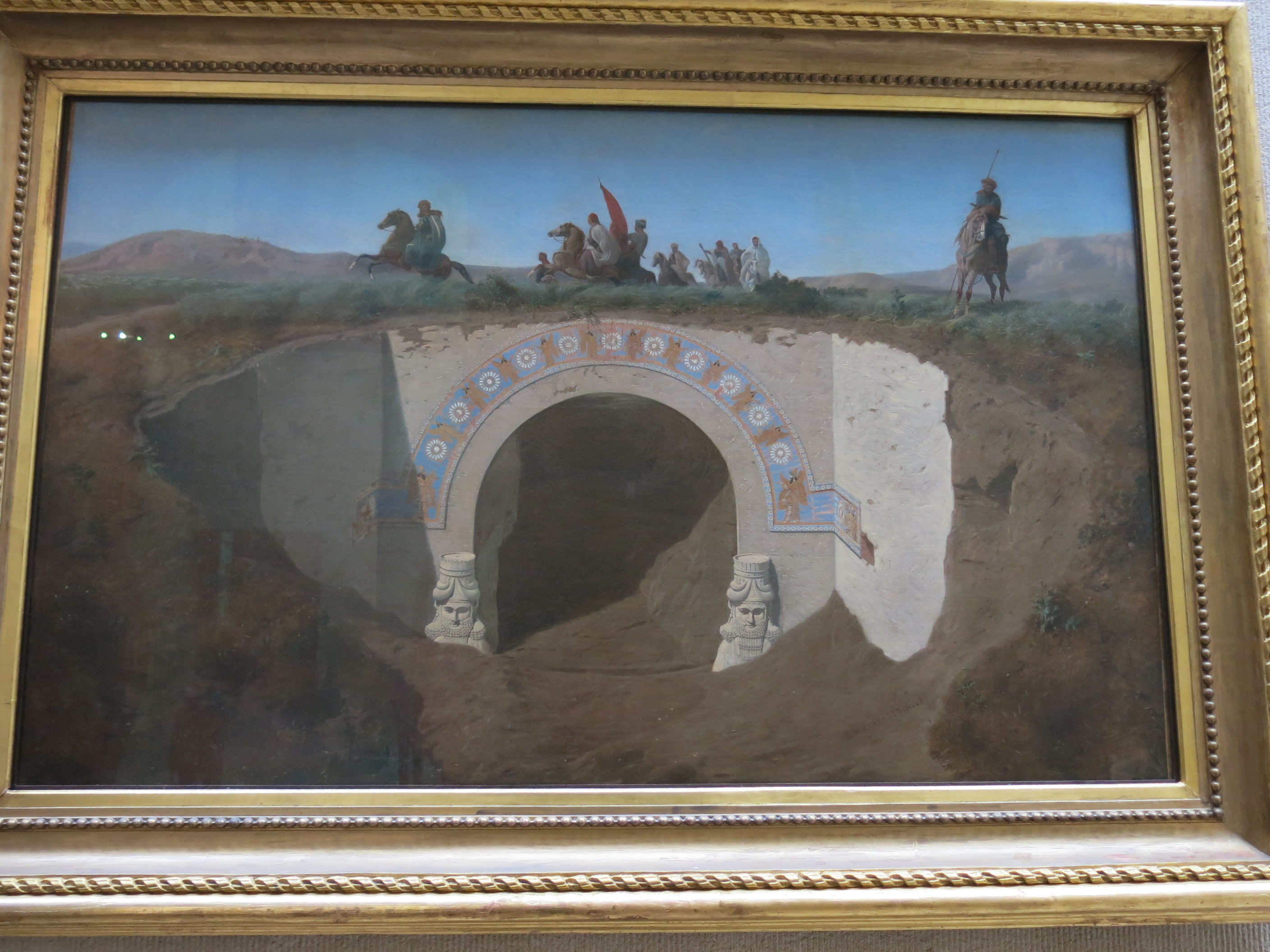 Visit of the pacha of Mossoul to the digs of Khorsabad (formerly Dur-Sharrukin and not Ninive as people thought at that time). Discovering of the door #3 in the wall of the town with human headed bulls. Louvre museum (Paris, France). Painting by Félix Thomas (1815-1875). Oil painting in 1853. Purchase in 2010.